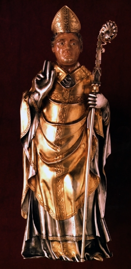 Reliquary of Saint Martirianus, image of the saint, in Bañolas, Catalonia, Spain. Photograph of one of the recovered silver reliefs, in an exhibition.